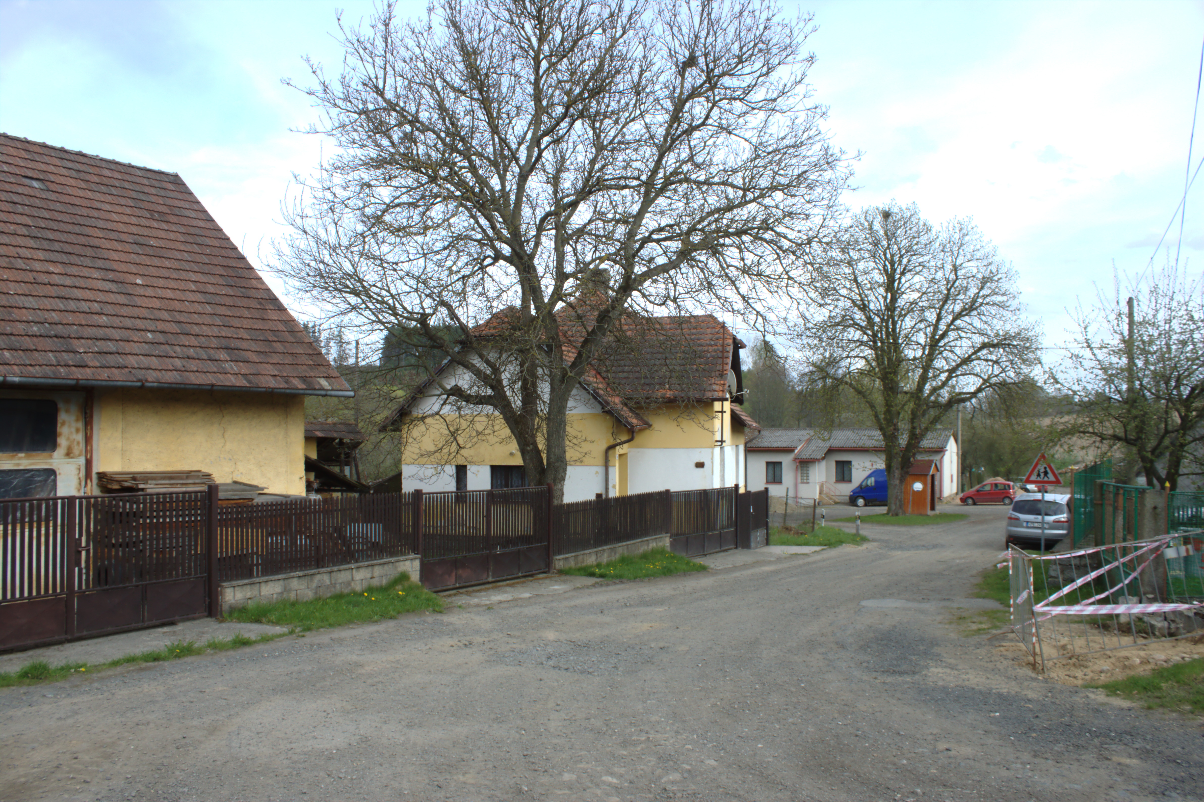 A common in the village of Kovčín, Plzeň Region, CZ